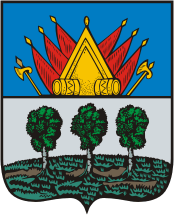 Berezovo (Berezov, Khanty-Mansia), coat of arms (1785)